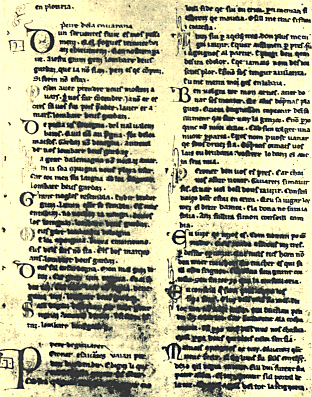 Folio 206a from troubadour MS D, an Italian manuscript of 1254 now in the Biblioteca Estense in Modena, showing the work of Peire de la Caravana and Peire de Gavaret.